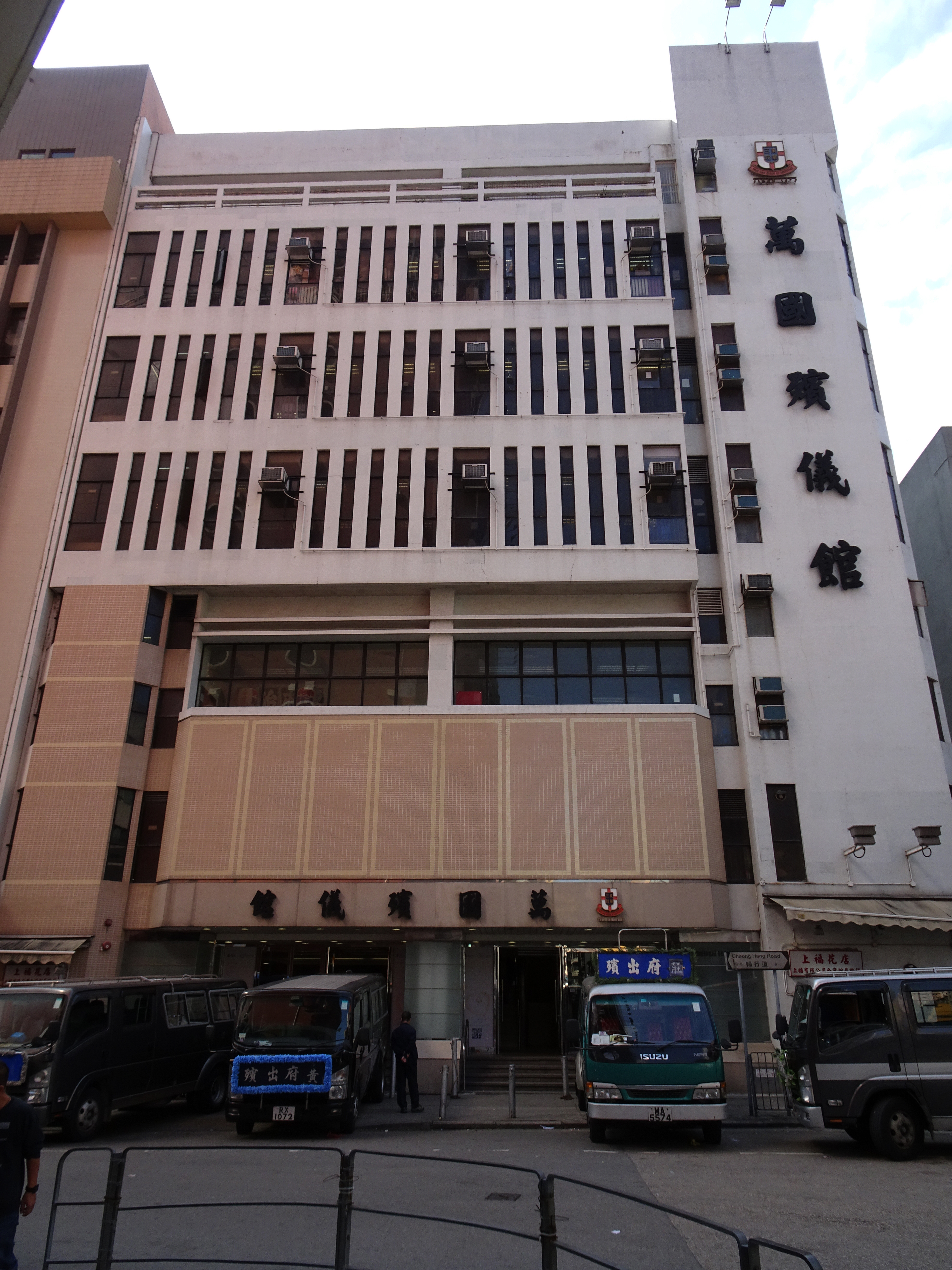 International Funeral Parlour in Hung Hom, Hong Kong.